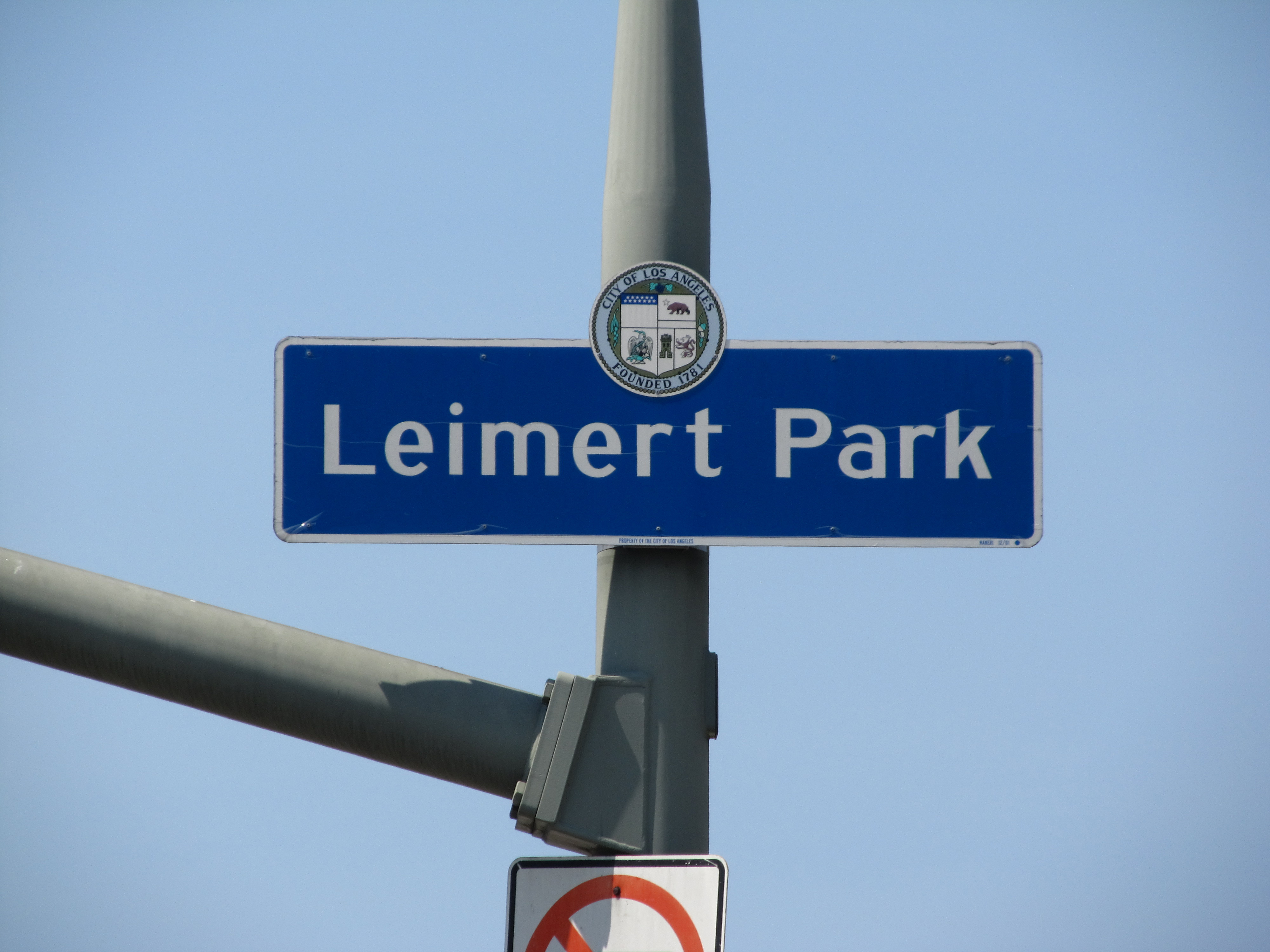 Leimert Park Signage located at Leimert Blvd. immediately north of Vernon.